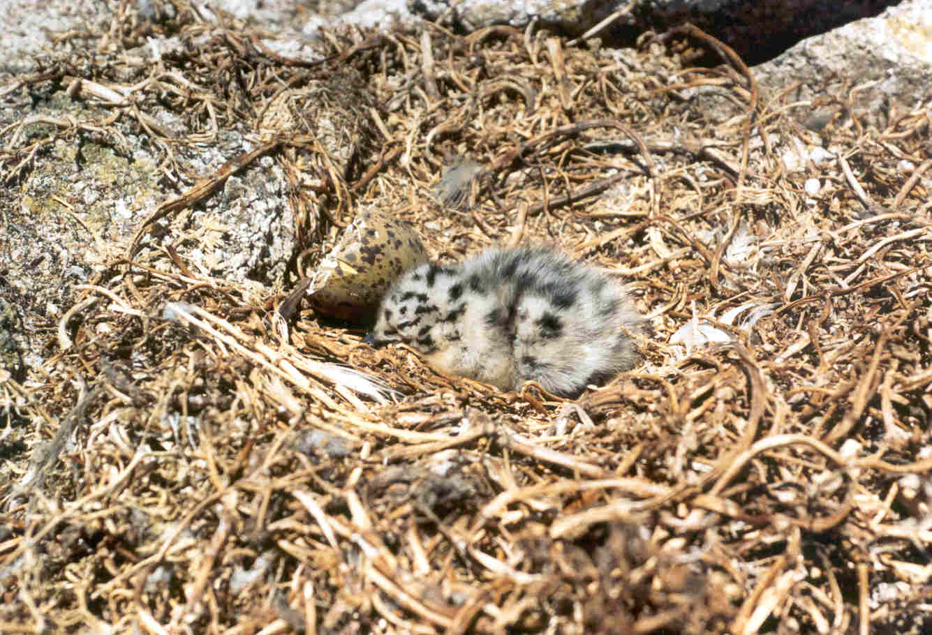 Western Gull Chick, newly hatched. Taken by Duncan Wright.